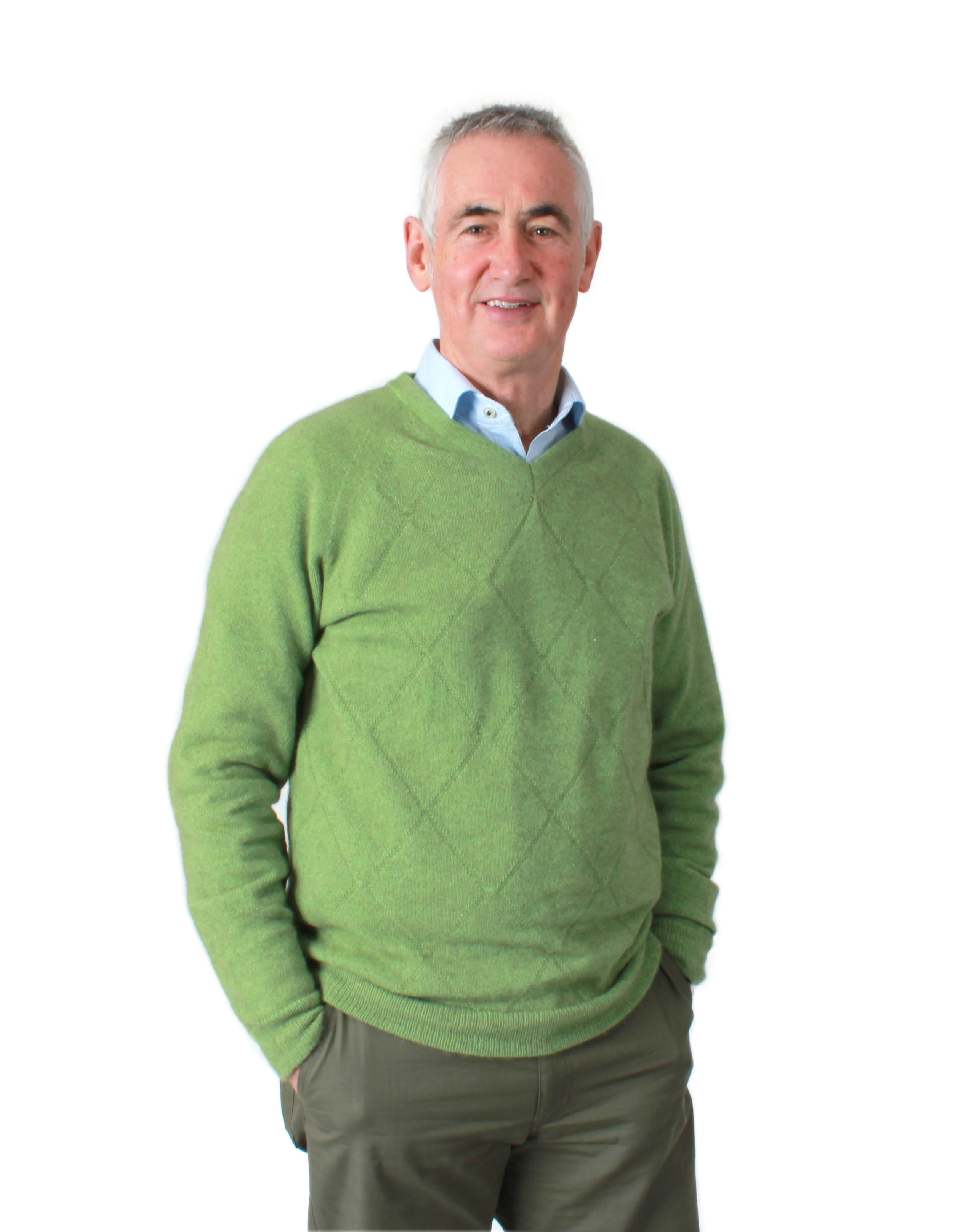 Sam Malcolmson